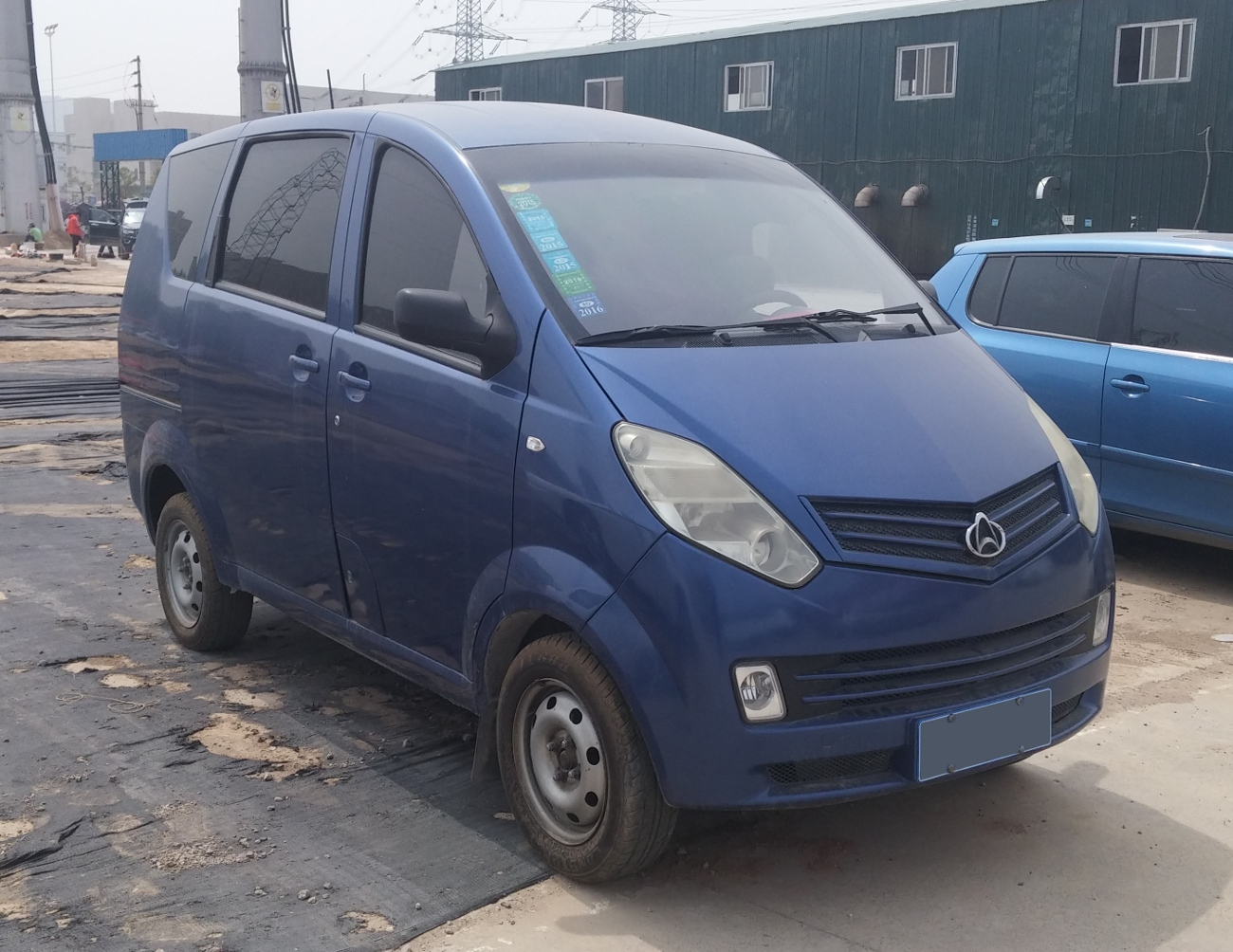 Chana CM8 photographed in Zhengzhou, Henan province, China.